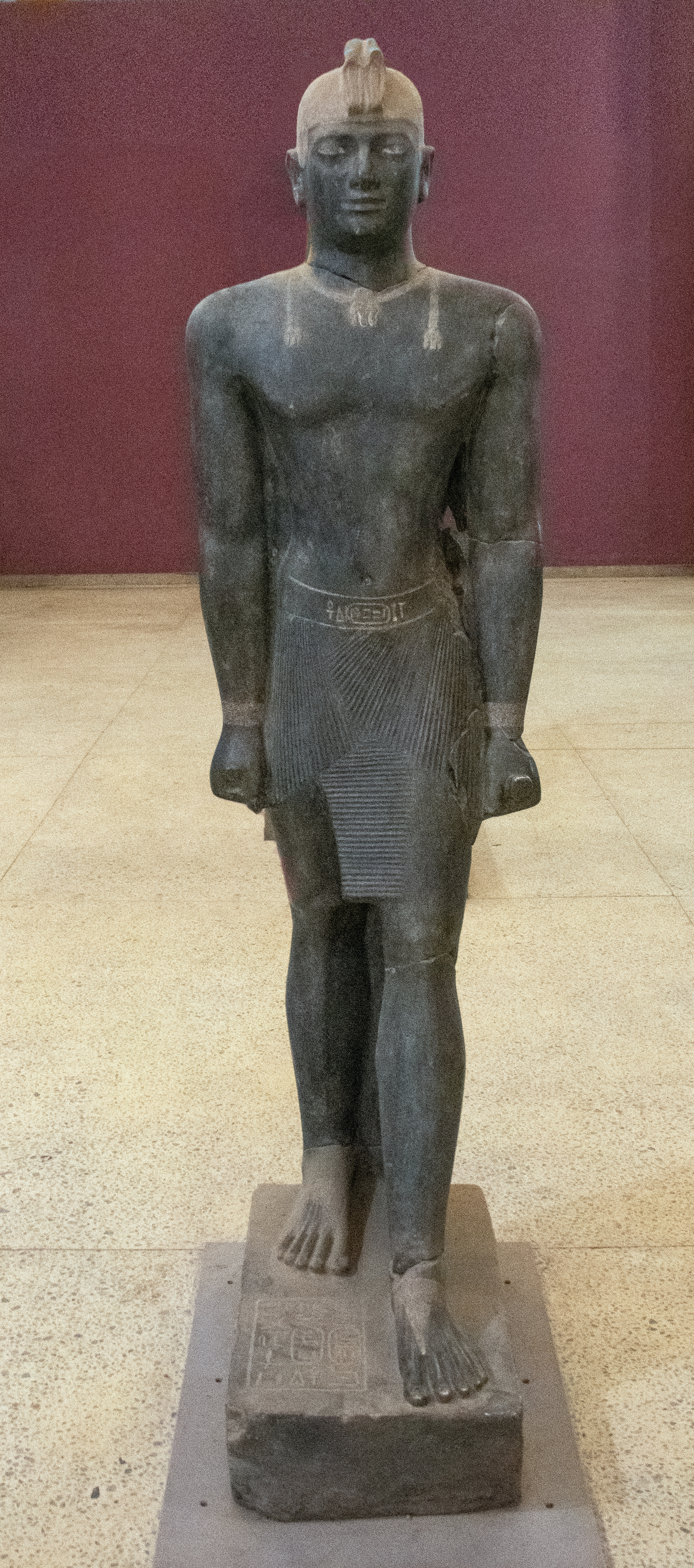 Kerma King Tantamani (r.664-653 BCE) XXV Dynasty Kushite Sudan National Museum, Khartoum